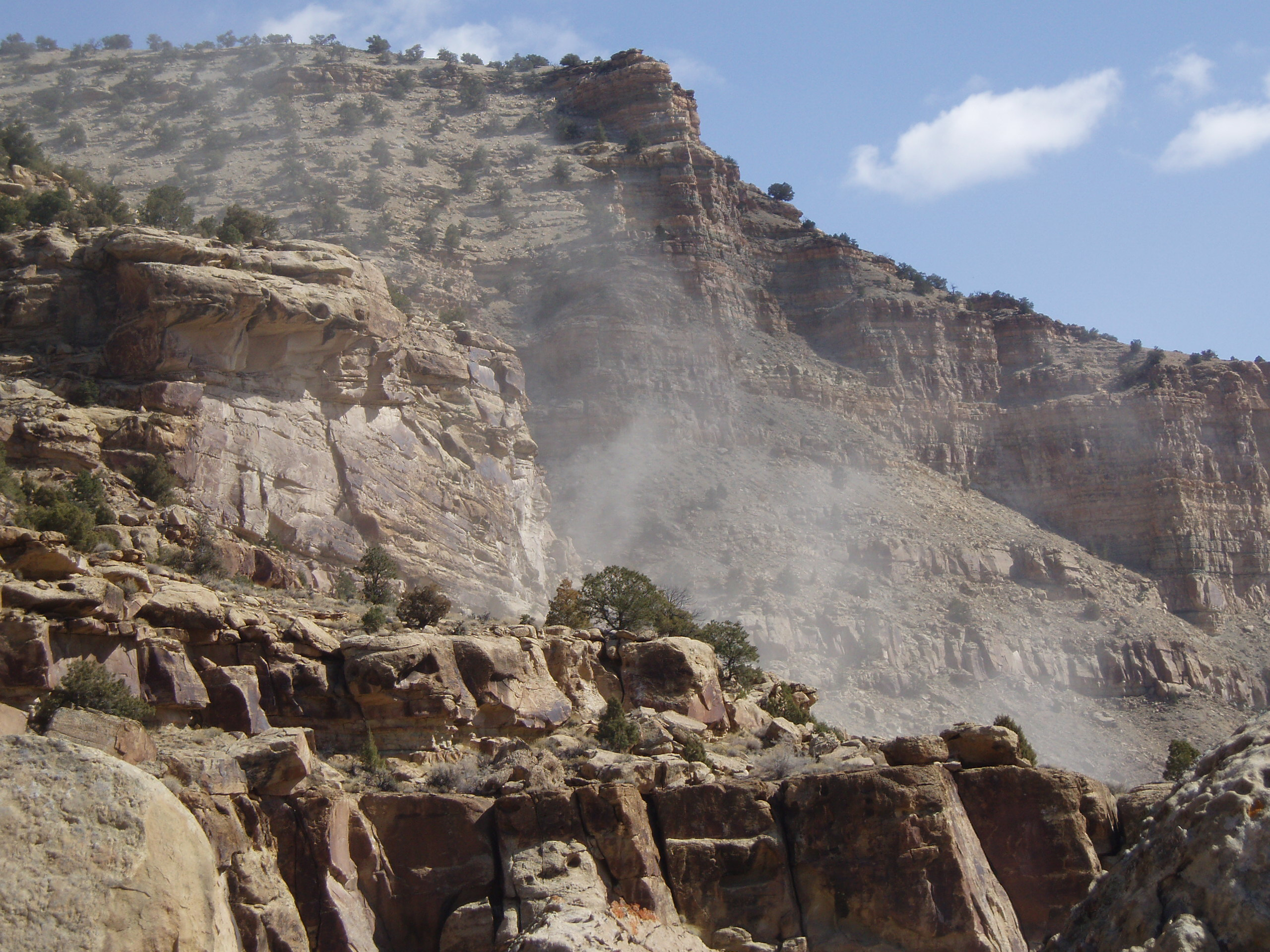 Dust rising up the side of Nine Mile Canyon, Utah, United States, several minutes after the passage of a heavy industrial truck